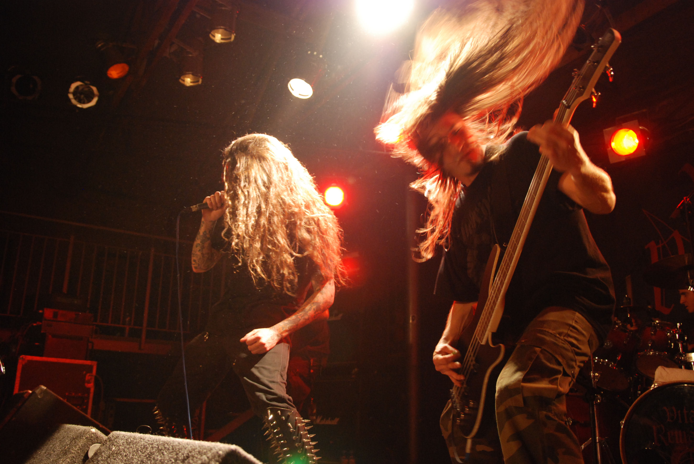 Vital Remains in Mega Club in Katowice